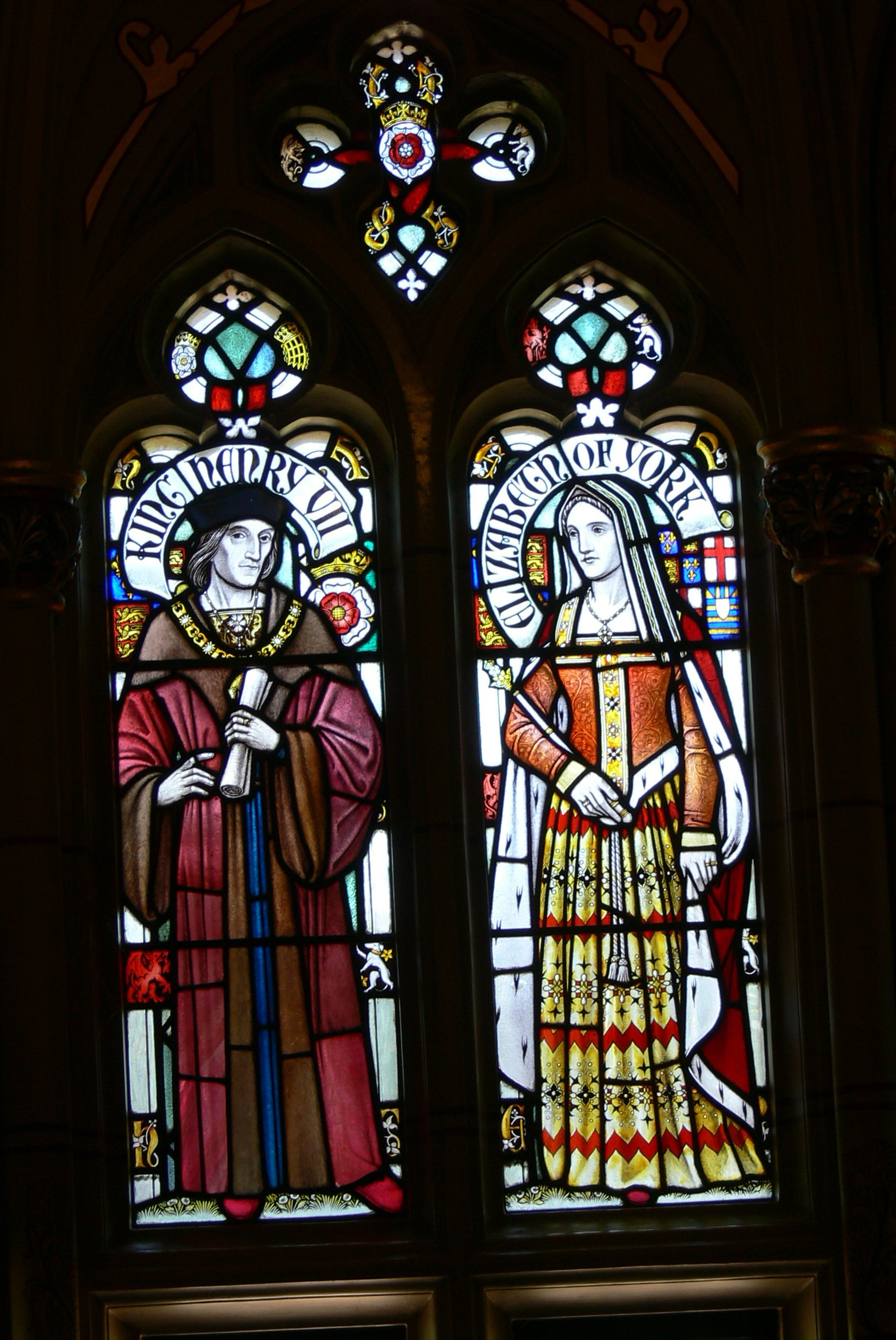 Cardiff Castle ( Wales ). Entrance hall to castle apartments: Gothic revival stained glass windows showing Henry VII of England and Elizabeth of York.